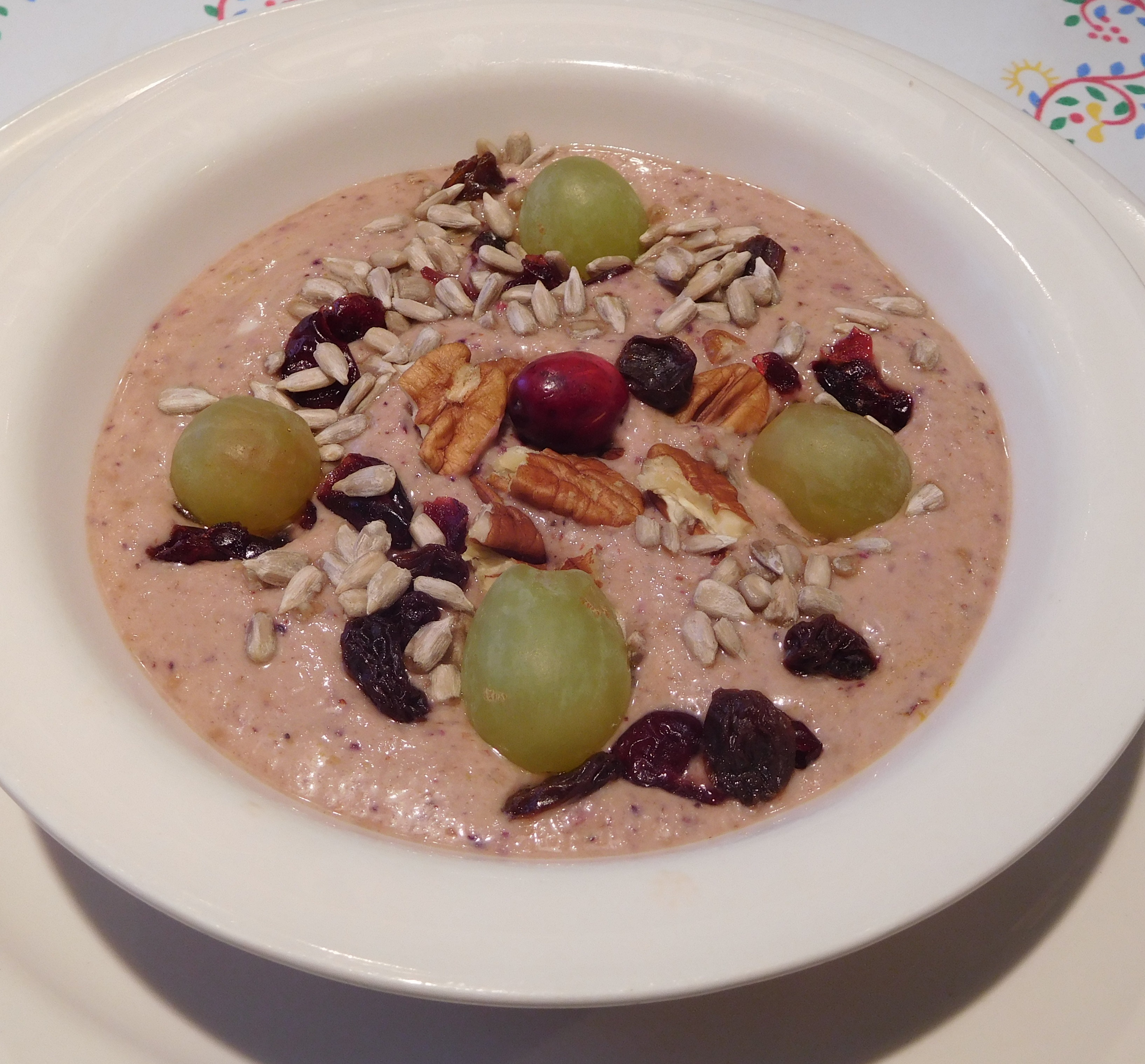 Budwig Diet